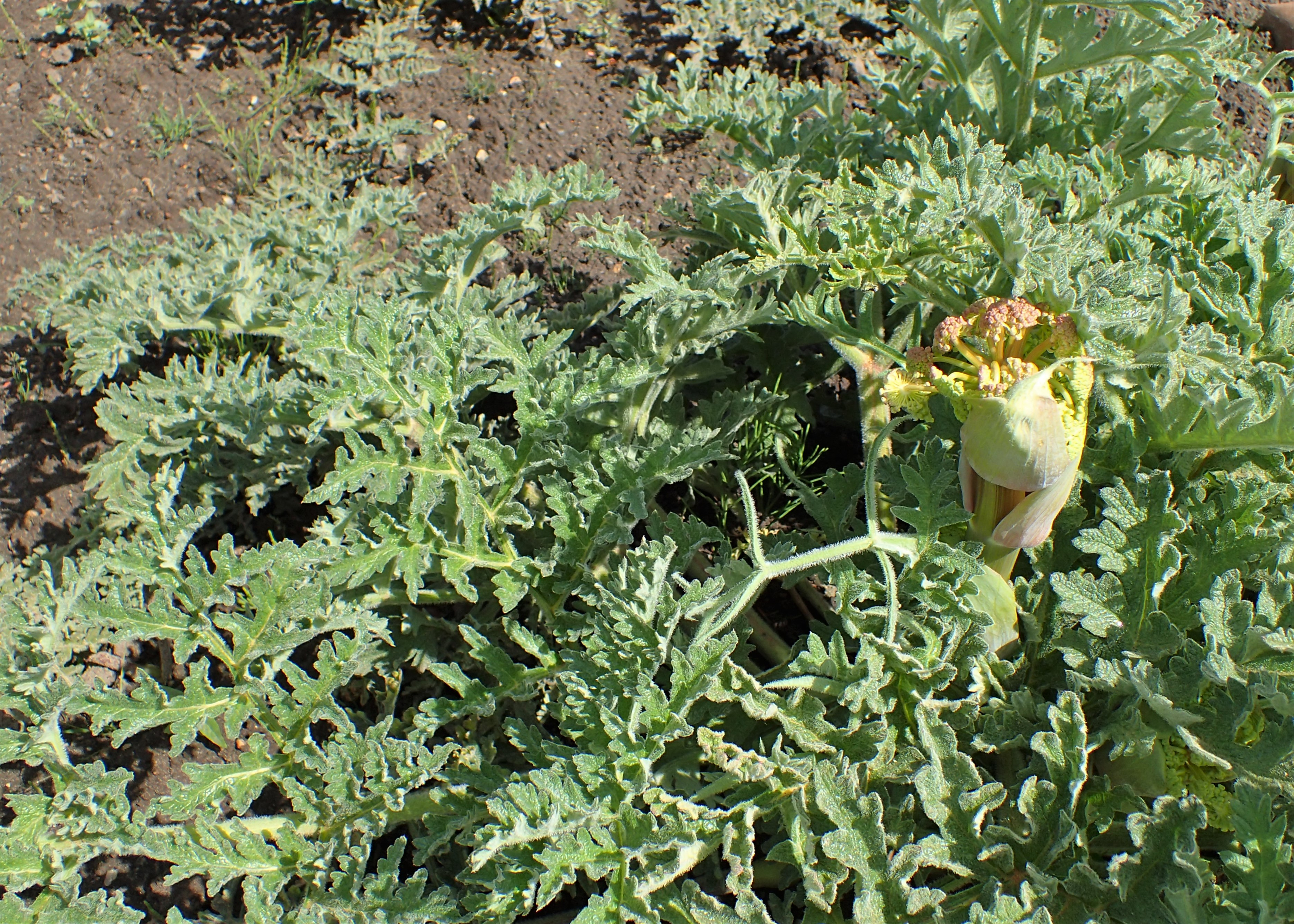 Thapsia villosa in the Botanischer Garten, Berlin-Dahlem